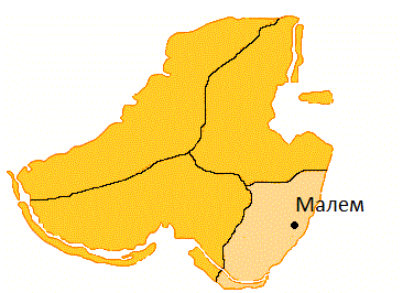 Map of Malem Minicipality, Kosrae, Micronesia in Macedonian.